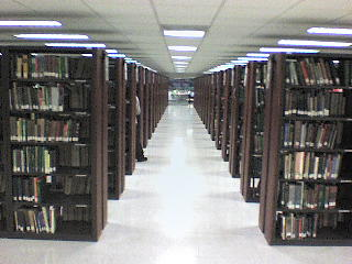 Pontifical Xavierian University, a hall in the second floor of the library.